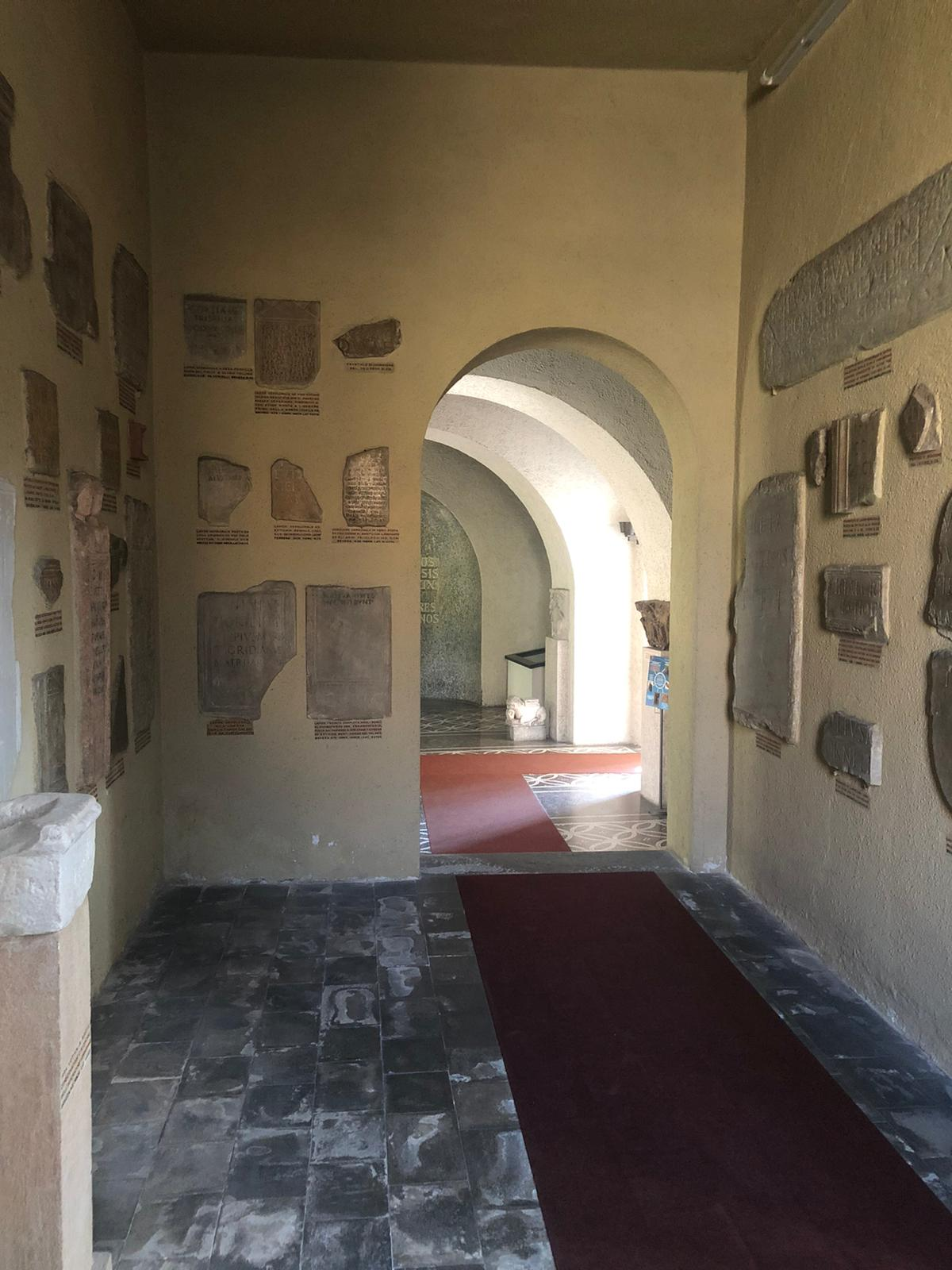 Museo Leone epigrafi Luigi Bruzza